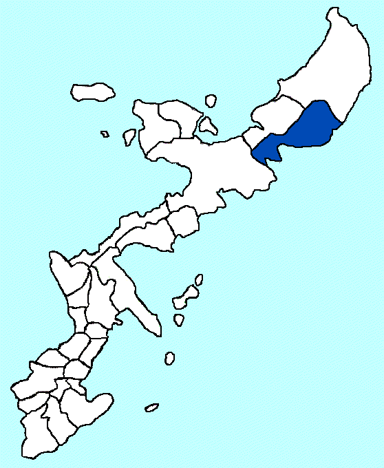 The location of Higashi Village in Okinawa.